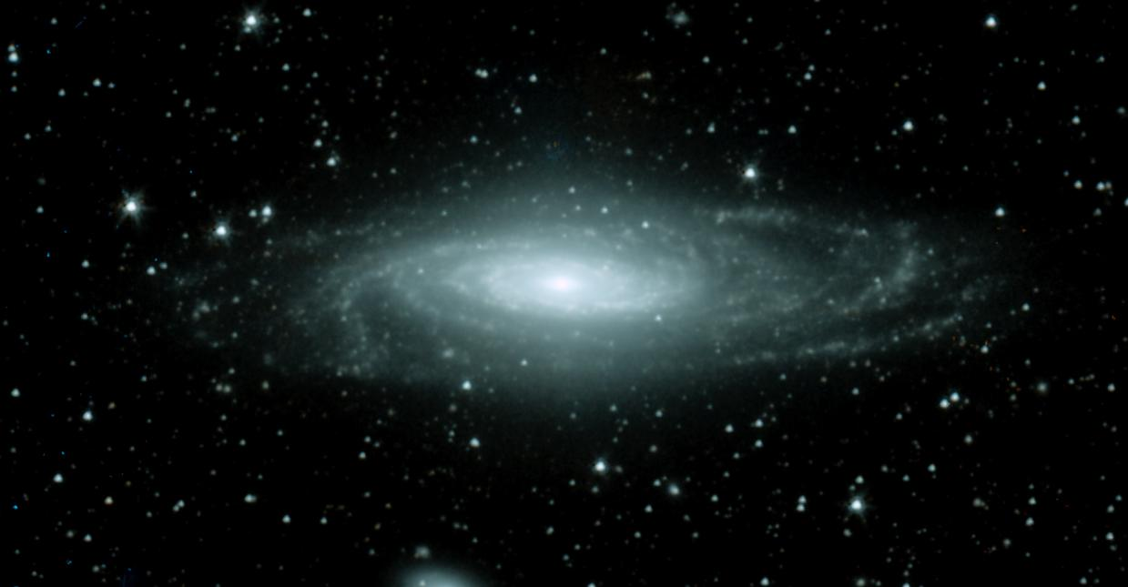 Source: Primary Image Credit: NASA/JPL-Caltech Image produced by: M. Regan (STScI), and the SINGS Team